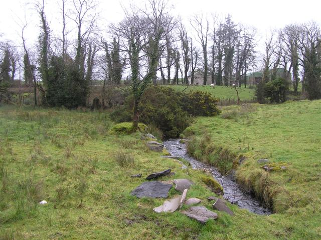 Cooltrain Townland A small brook runs through here.